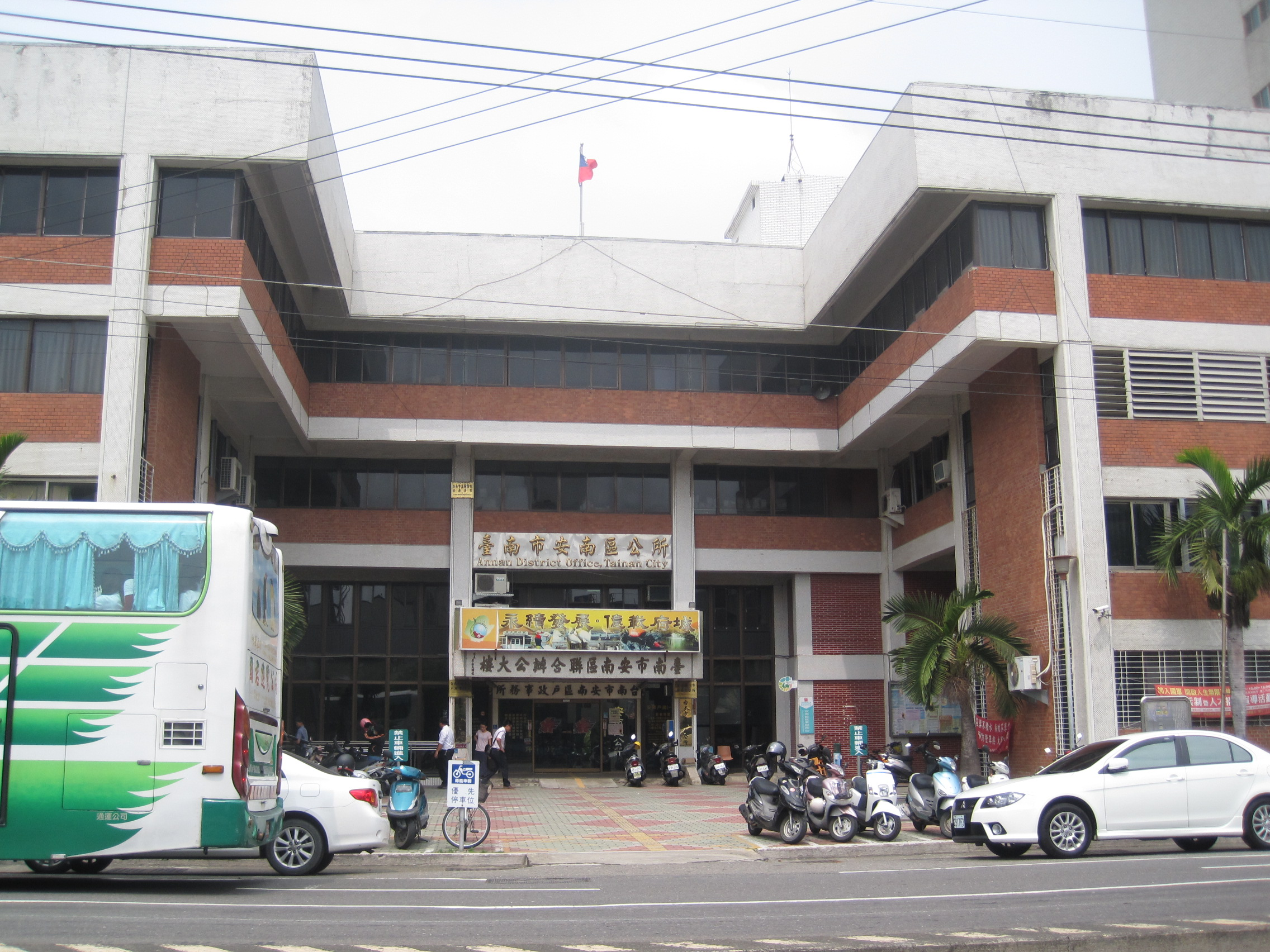 Annan District Joint Office Building, Tainan City